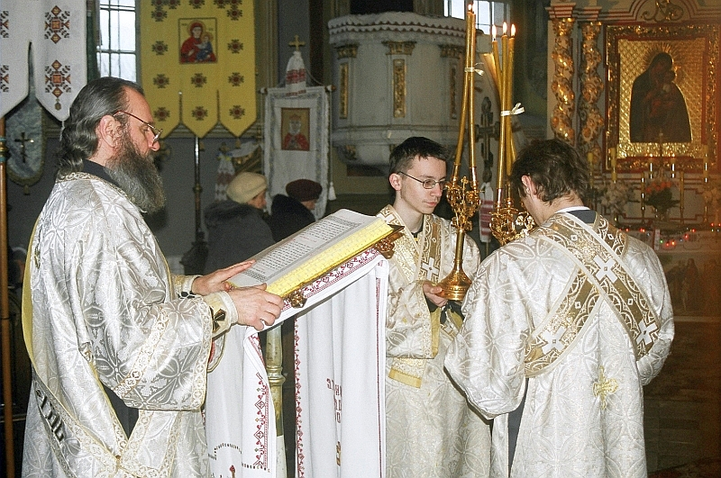 Gospel reading during the Great Blessing of Waters (holy water) at Theophany (Epiphany) as observed in Orthodox Christianity, Sanok, 19 Jan. 2007